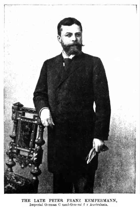 The Late Peter Franz Kempermann, Imperial German Consul-General for Australasia, in: The Sydney Mail, Saturday, November 17, 1900, page 1182